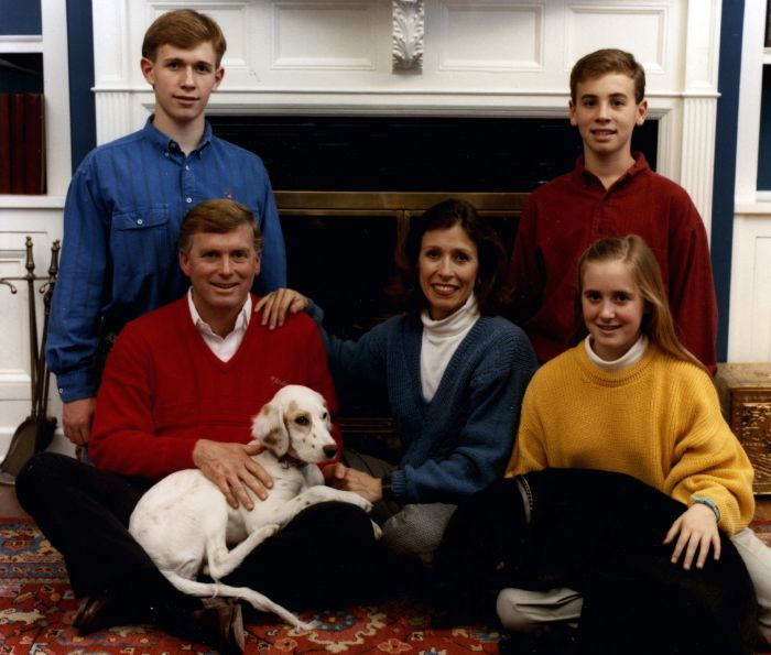 Vice President and Mrs. Quayle pose for a family portrait with their children, Tucker, Ben, and Corinne, 27 Nov 90